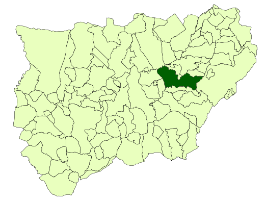 Situation of the municipality of Villacarrillo (Jaén, Andalusia, Spain).